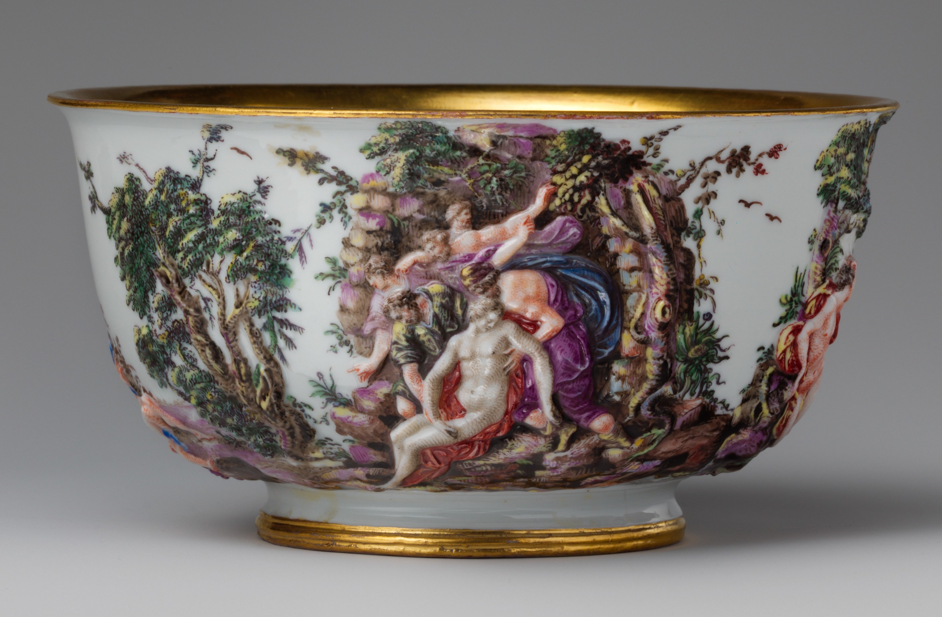 Italian, Florence; Bowl; Ceramics-Porcelain